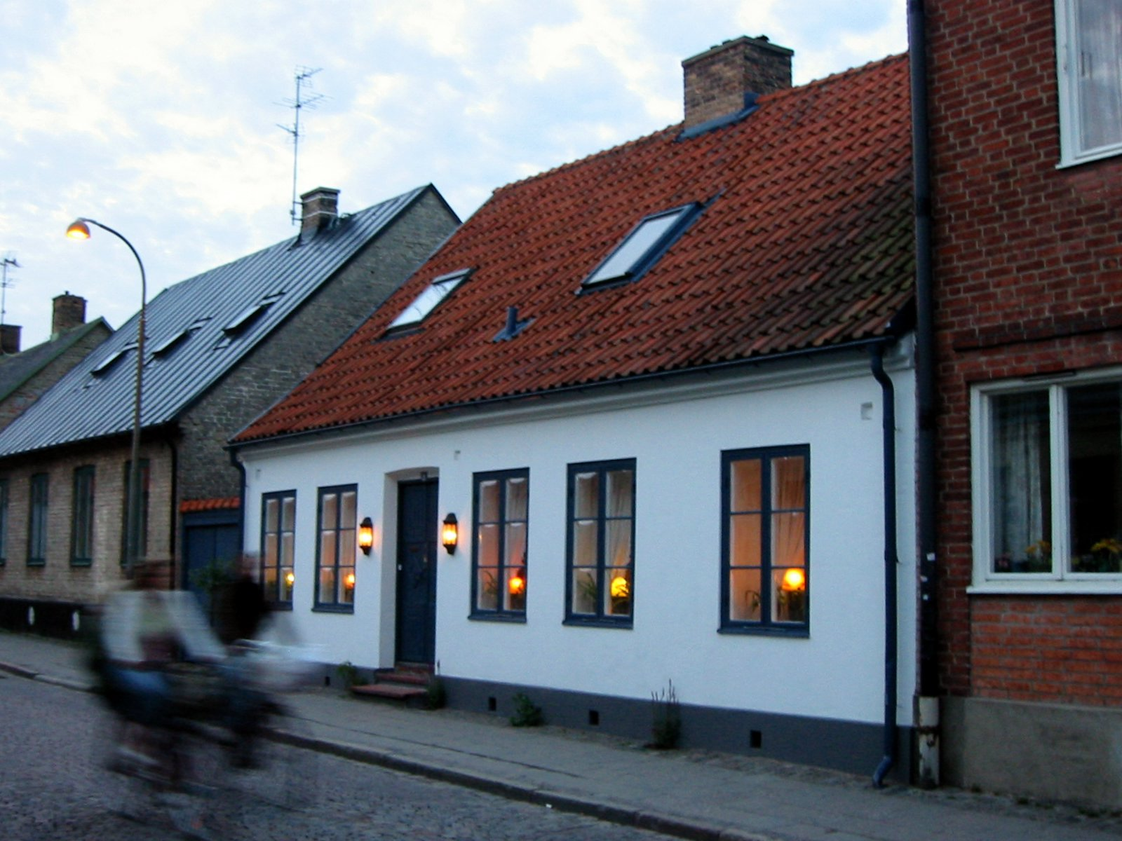 The most charming streets in Lund are made up of these small houses neatly lined-up, often in various colorsSmall house